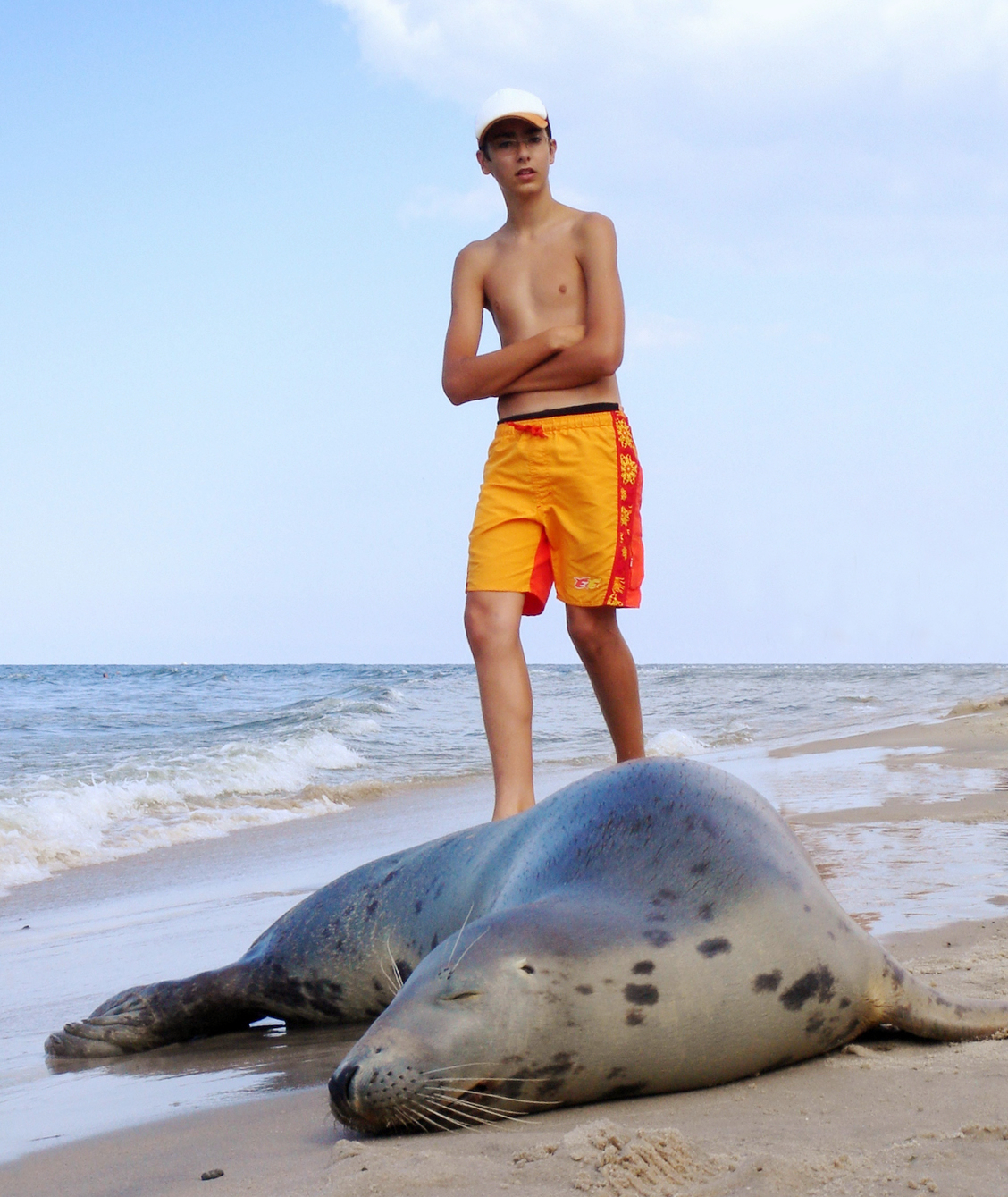 Grey Seal "Depka", beached near Niechorz.